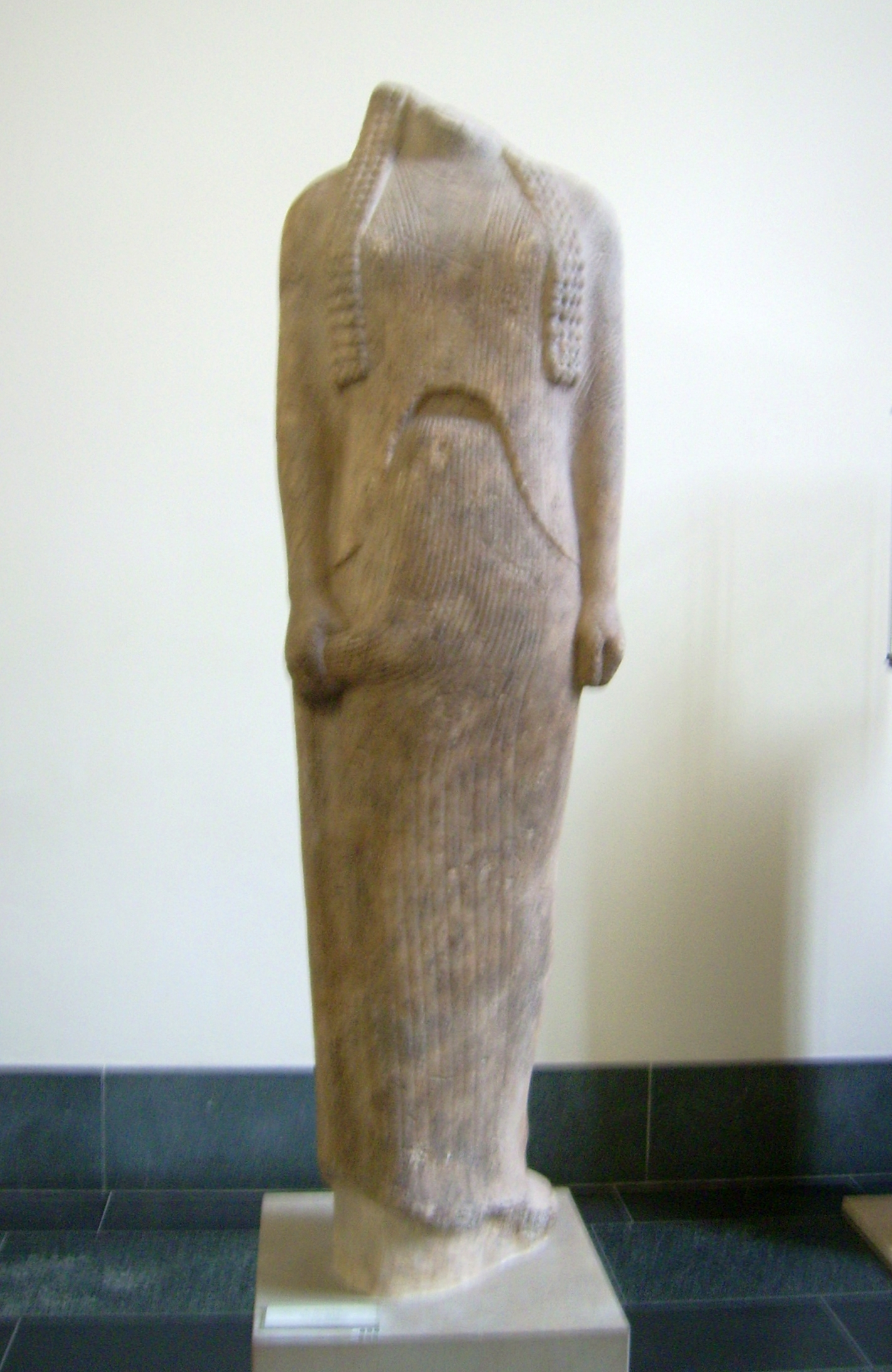 A female figure in a frontal pose, with both legs together, and her arms by her sides. Missing the head, feet and most of the plinth.